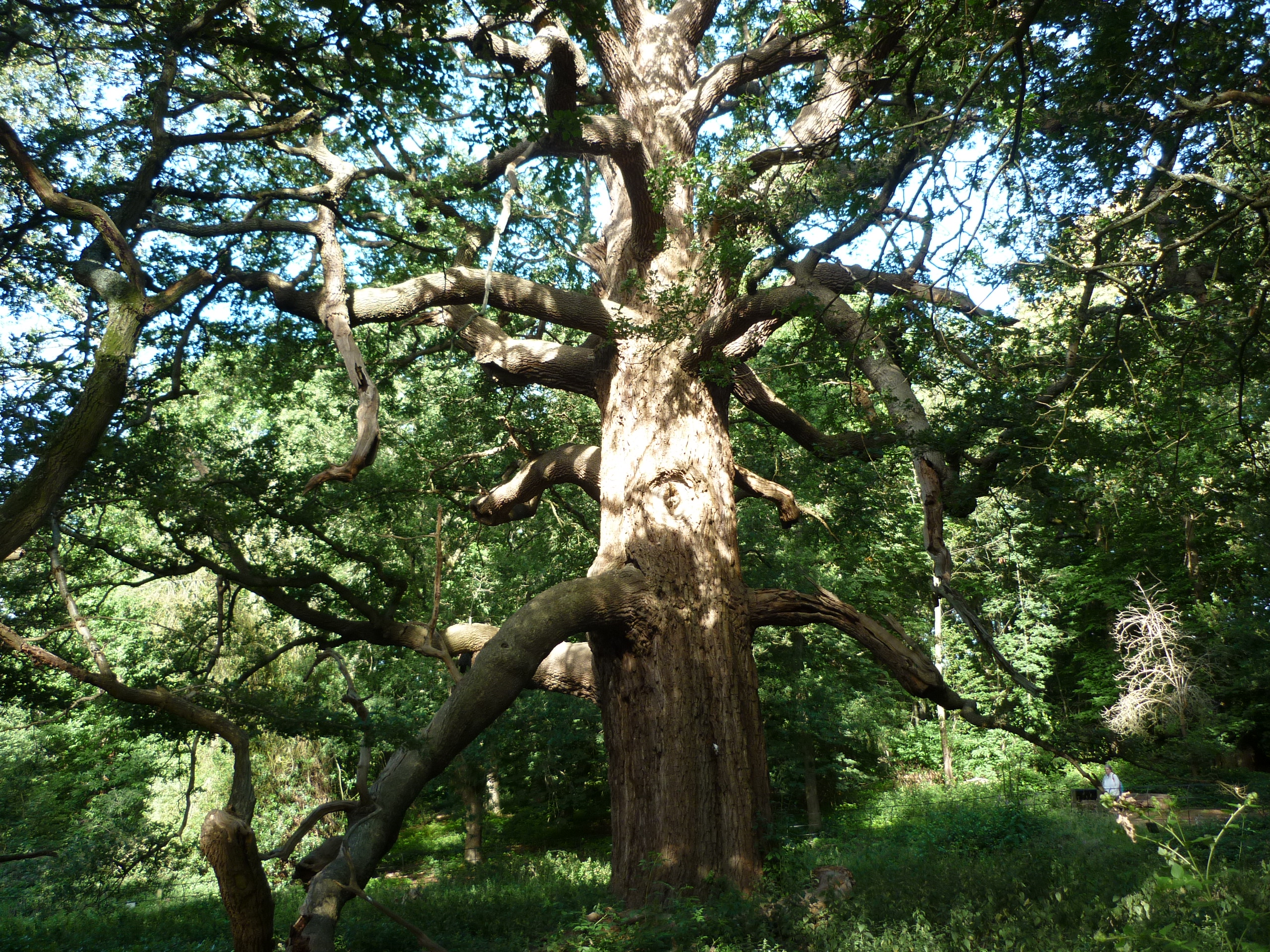 Great Oak in Panshanger Park, Hertford, England; one of the fifty Great British Trees